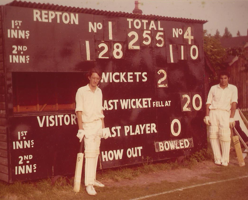 Photo shows Ivan Johnson (right) and Michael Barnard (left) after sharing unbroken record second wicket partnership of 235 runs for Malvern College against Repton College at Repton in 1971